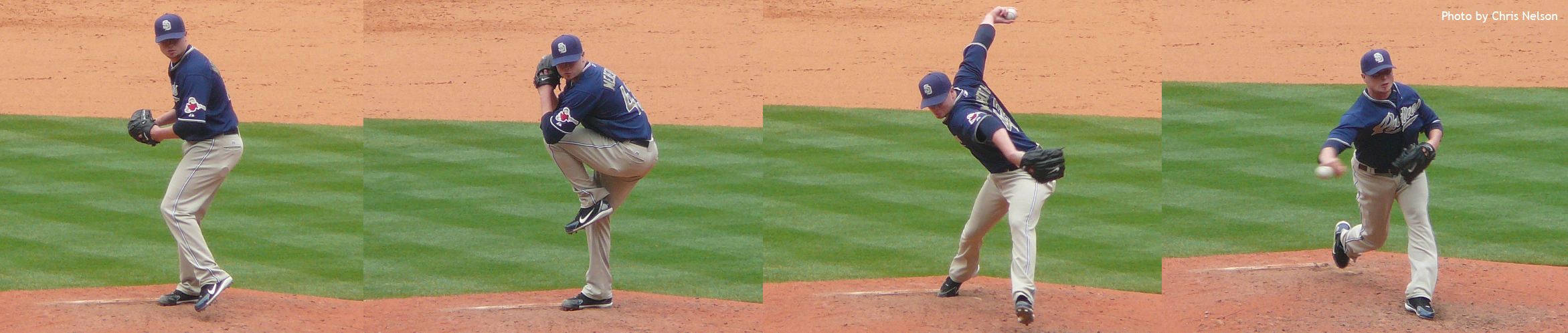 Cla Meredith 07:56, 24 May 2008 . . Chrisjnelson . . 2,343×498 (1.06 MB)